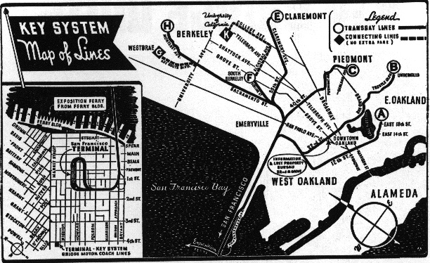 Circa-1940 map of the Key System commuter trains. The source identifies it as being from 1941, but the note of the Golden Gate International Exposition indicates it is slightly earlier.